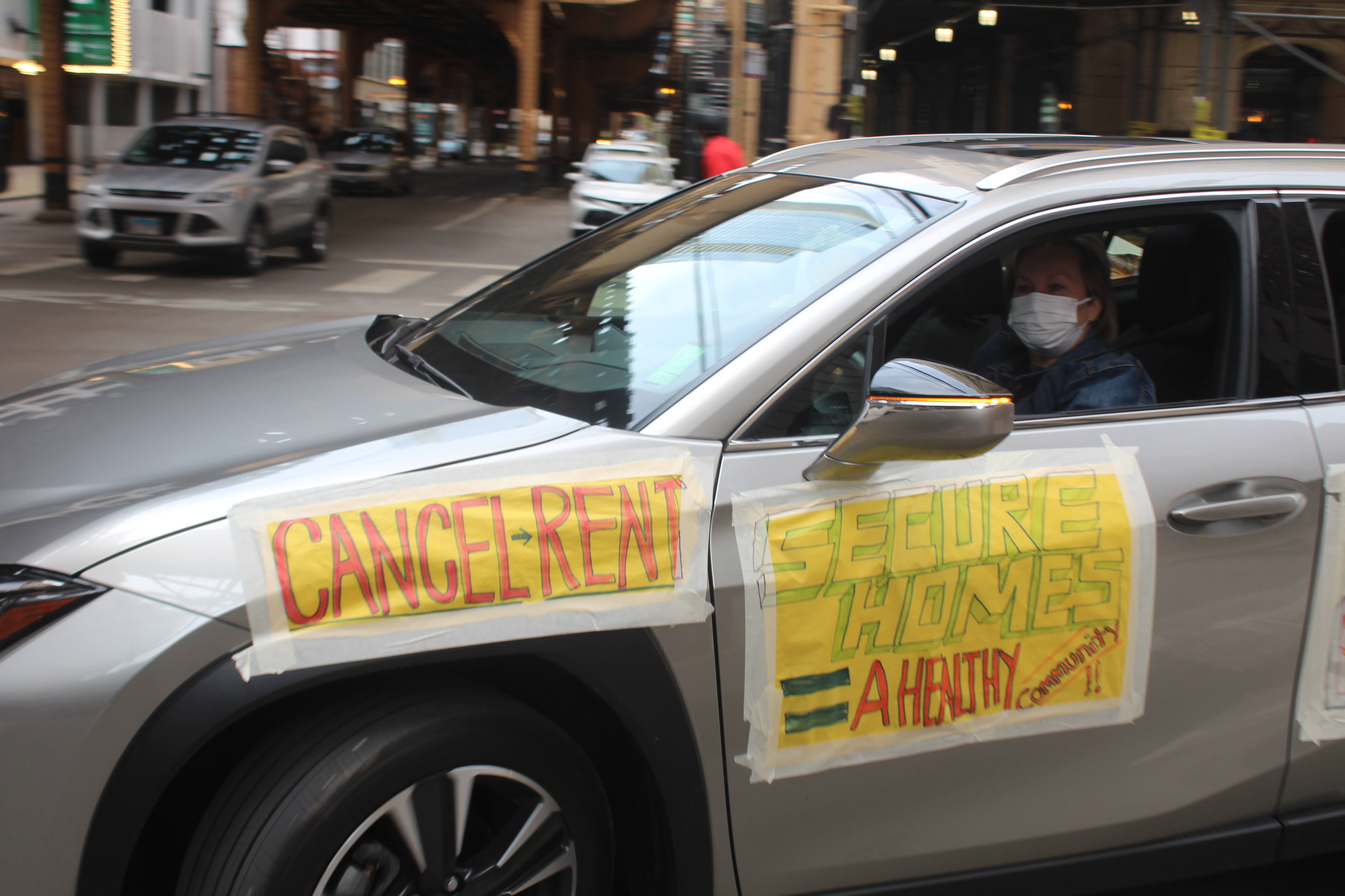 On, Thursday, May 7, 2020, Chicagoans from different communities held caravan rallies across the city and converged at Thompson Center demanding recovery for front line workers in communities of color We're demanding environmental justice, immigrants rights, education justice, housing justice, end to mass incarceration, PPE and economic justice for nursing home workers, Affordable Housing, Community Benefits Agreements and no more Racist School Closures.